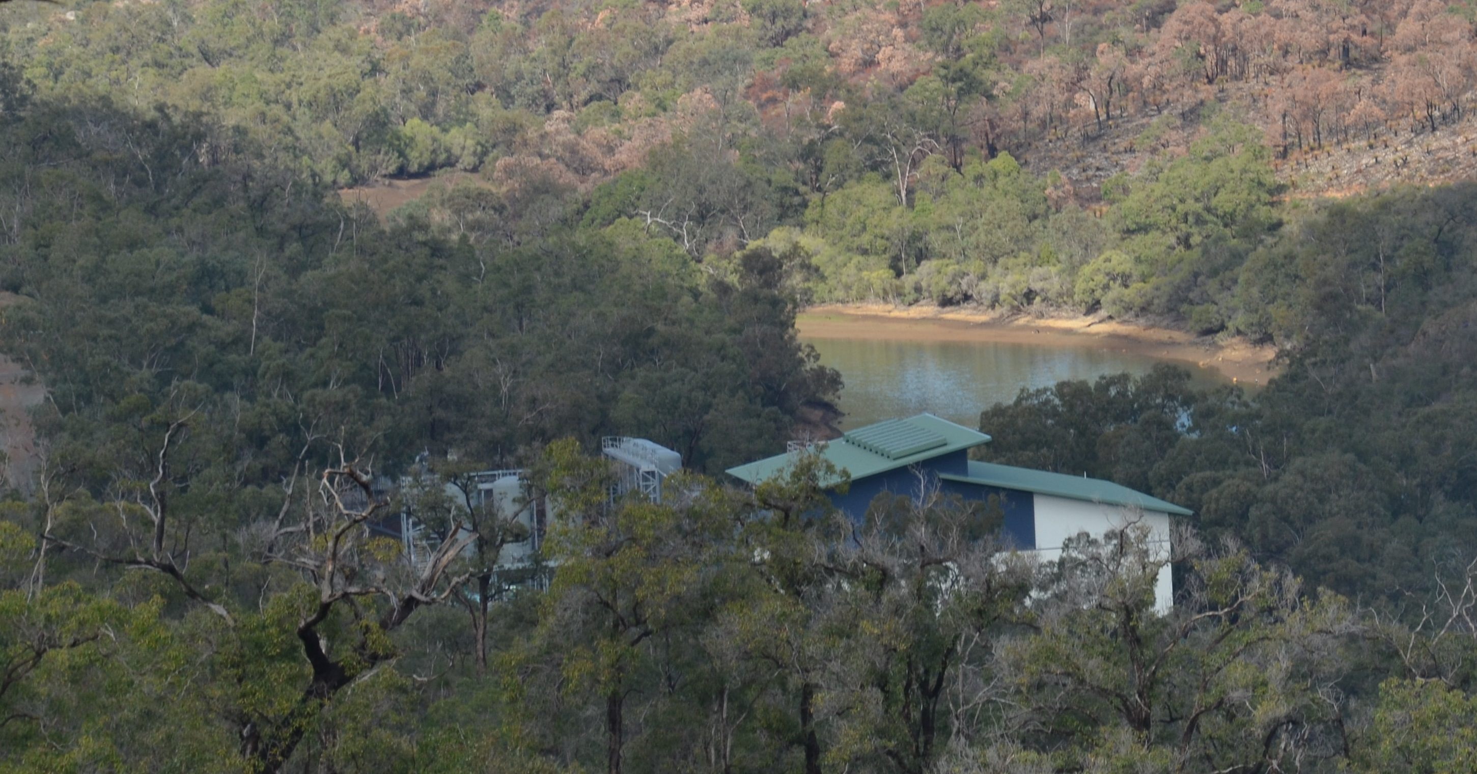 Helena River, Western Australia, valley and water behind pumpback dam and buildings